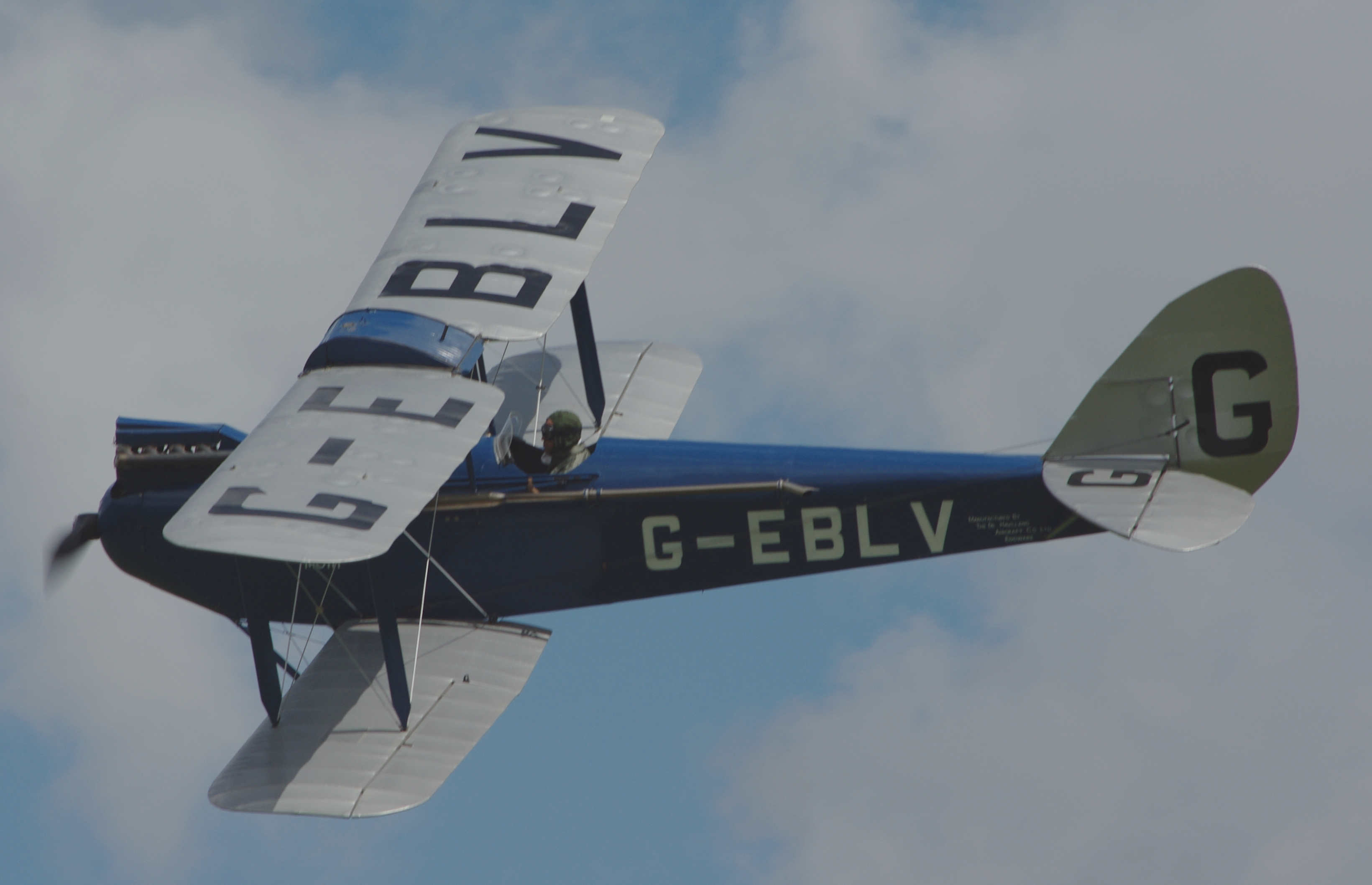 The DH.60 Moth belonging to the Shuttleworth Trust, flying at the Old Warden Summer Show 2009. The eighth Moth produced, it was delivered to the Lancashire Aero Club by Alan Cobham on29 August 1925. It has a Cirrus III engine but the early straight (single) axle.